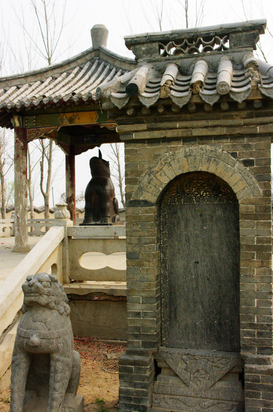 kaifeng tiexi